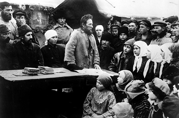 ca. 1918-1924, USSR --- A group of Russian peasants spread the word about Communism to their fellows. A picture of Lenin hangs in the background.